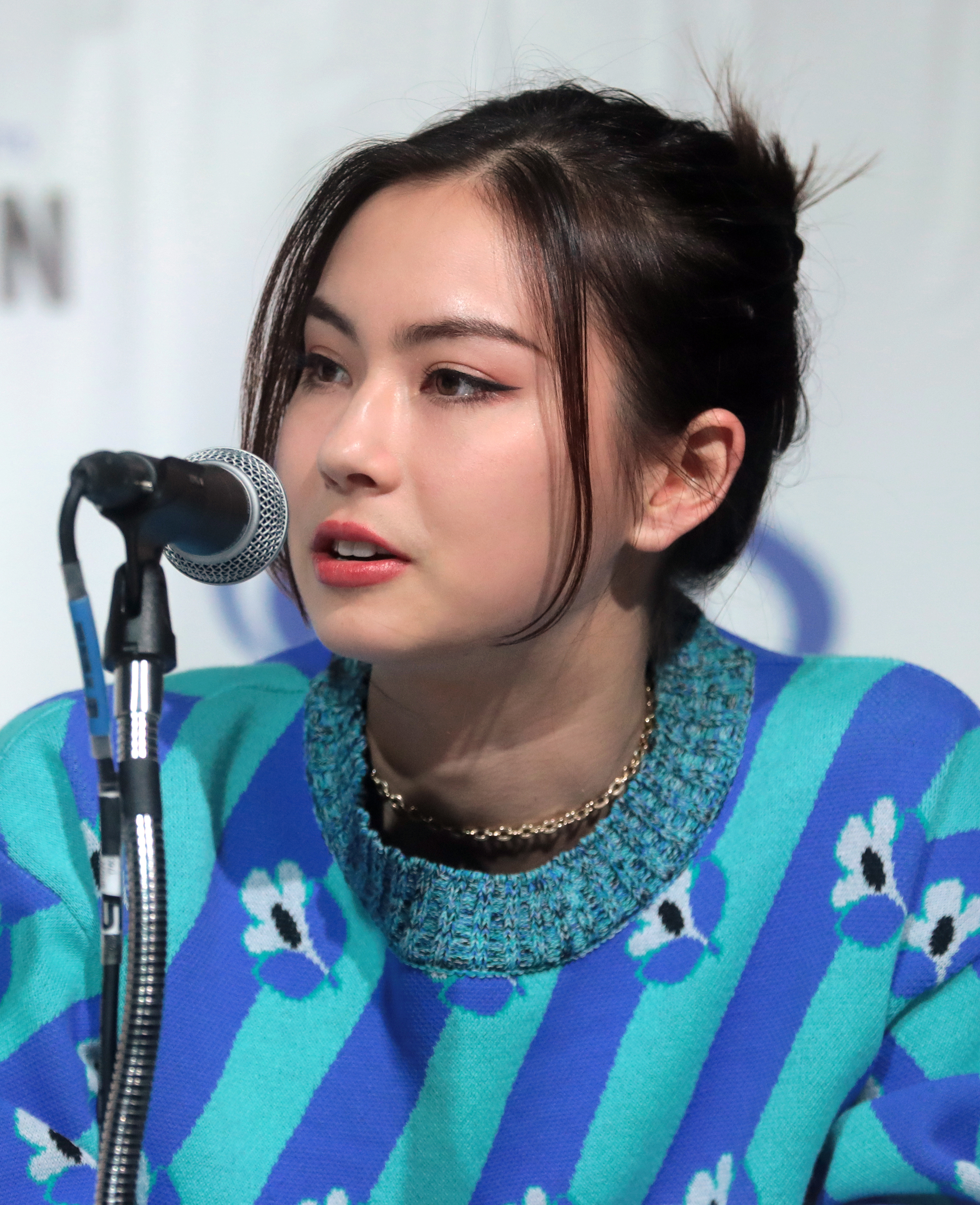 Lauren Tsai at the 2019 WonderCon in Anaheim, California.